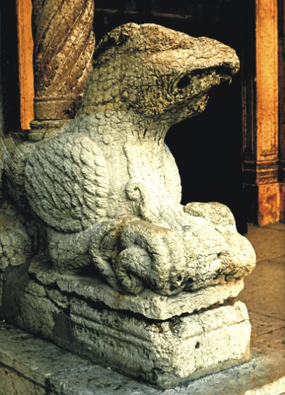 Verona Cathedral: a griffin bearing a column of the protiro